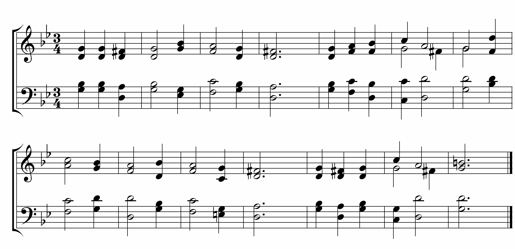 Music of the Coventry Carol